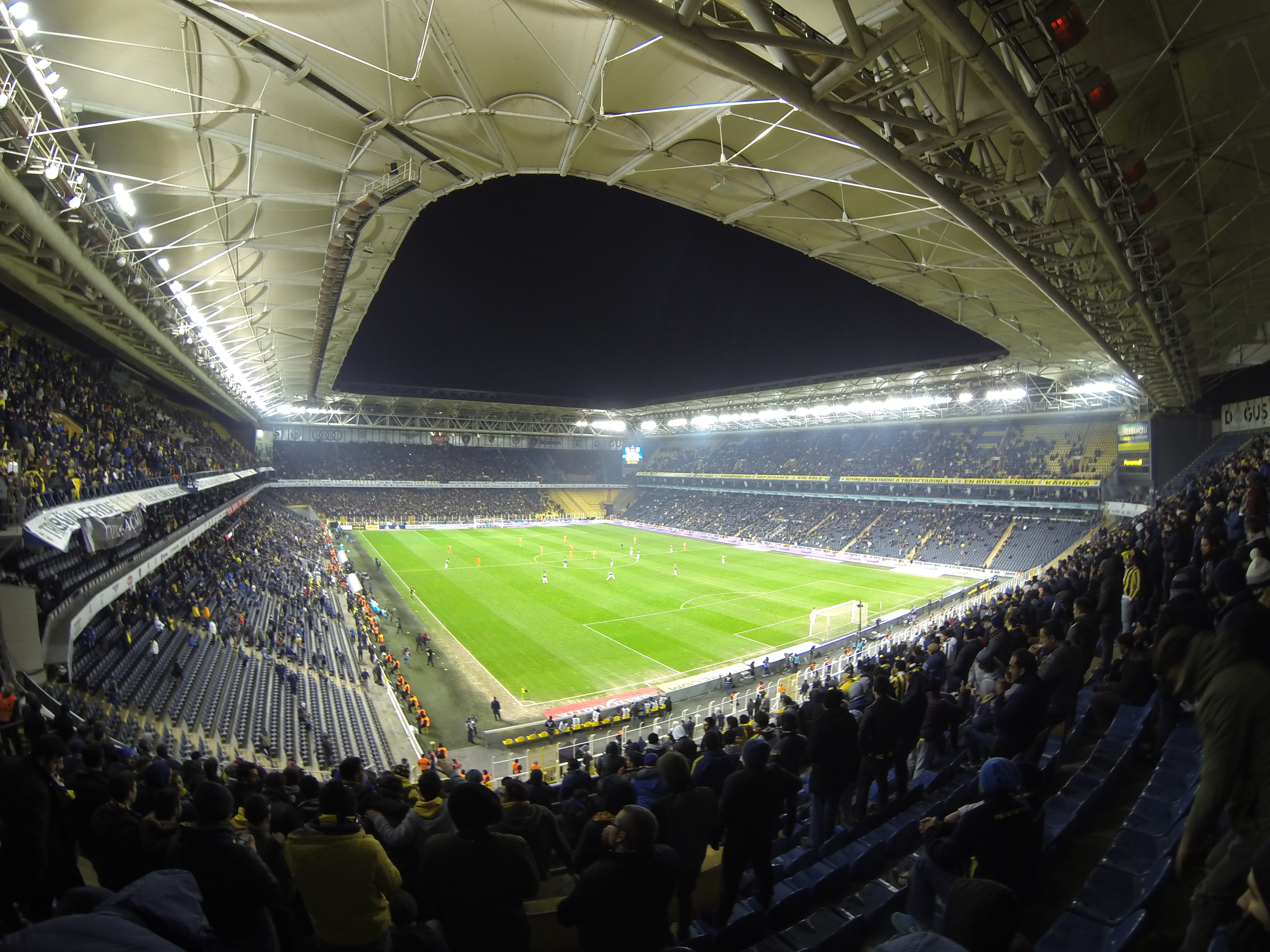 Şükrü Saracoğlu Stadium